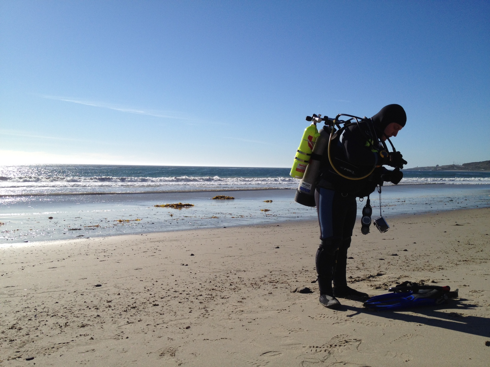 Doing a Pre-dive check at Nicholas Canyon, Malibu, California